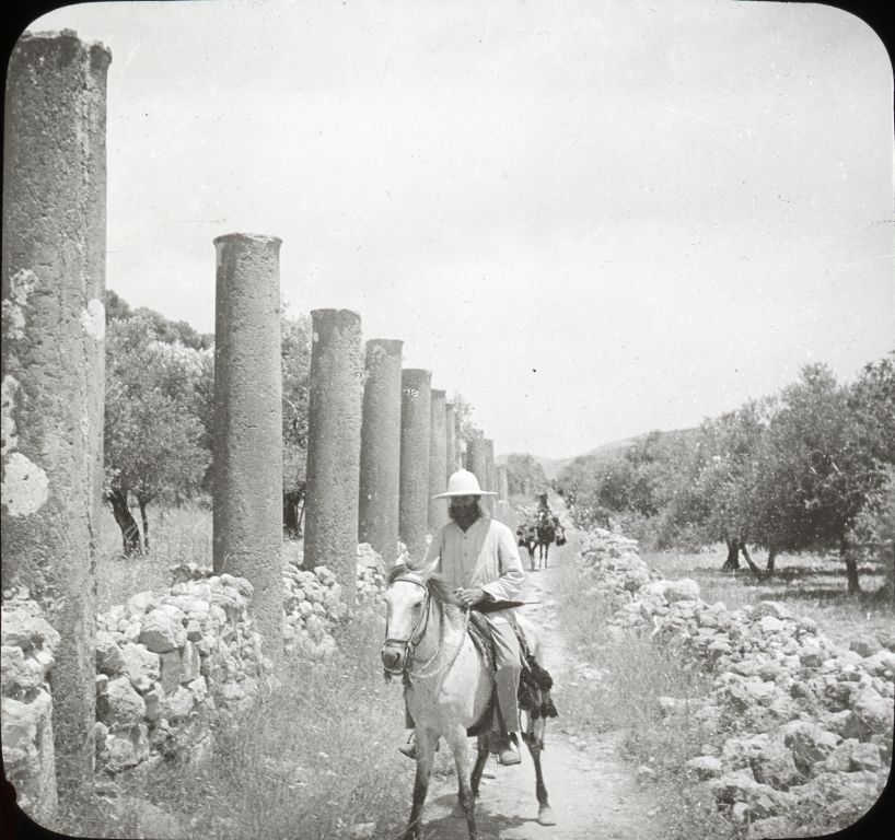 Image Title: Street of Columns of Ancient Samaria Image Description from historic lecture booklet: "On a large isolated hill, rising by successive terraces, several hundred feet above the surrounding valley is the site of Samaris, the once celebrated capital of Israel. According to 1 Kings 16:24, the city was built by Omri, a king of Israel, who bought a hill from a certain man named Shemer, on which he built a city and named it after the former possessor. The city was taken by Sargon in B.C. 772, after a siege of three years. In the time of the Maccabees it was again an important and fortified city. After a year's siege it was taken and totally destroyed by John Hyrcanos. Pompey restored it to its former inhabitants, and it was rebuilt by Gabinius. Augustus presented the city to Herod the Great, who adorned it with many splendid buildings, fountains, and colonnades such as the one in the picture, and strongly fortified it and called it Sabaste. We are reminded that Samaria has a place in Bible history. Many of the wonderful events in the lives of Elijah and Elisha are connected with Samaria and her idolatrous and bloody rulers. Here Naaman, the Syrian leper, came to be healed (2 Kings 5) Philip the Evangelist preached here (Acts 8:5)." Original Format: Lantern slides Original Collection: Visual Instruction Department Lantern Slides Item Number: P217:set 010 029 Restrictions: Permission to use must be obtained from the OSU Archives. Click here to view The Best of the Archives. Click here to view Oregon State University's other digital collections. We're happy for you to share this digital image within the spirit of The Commons; however, certain restrictions on high quality reproductions of the original physical version may apply. To read more about what “no known restrictions” means, please visit the OSU Archives website.